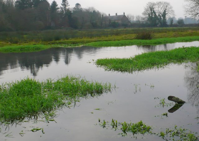 Water Meadows near Puddletown This is the river Piddle running through water meadows at Druce farm just NW of Puddletown